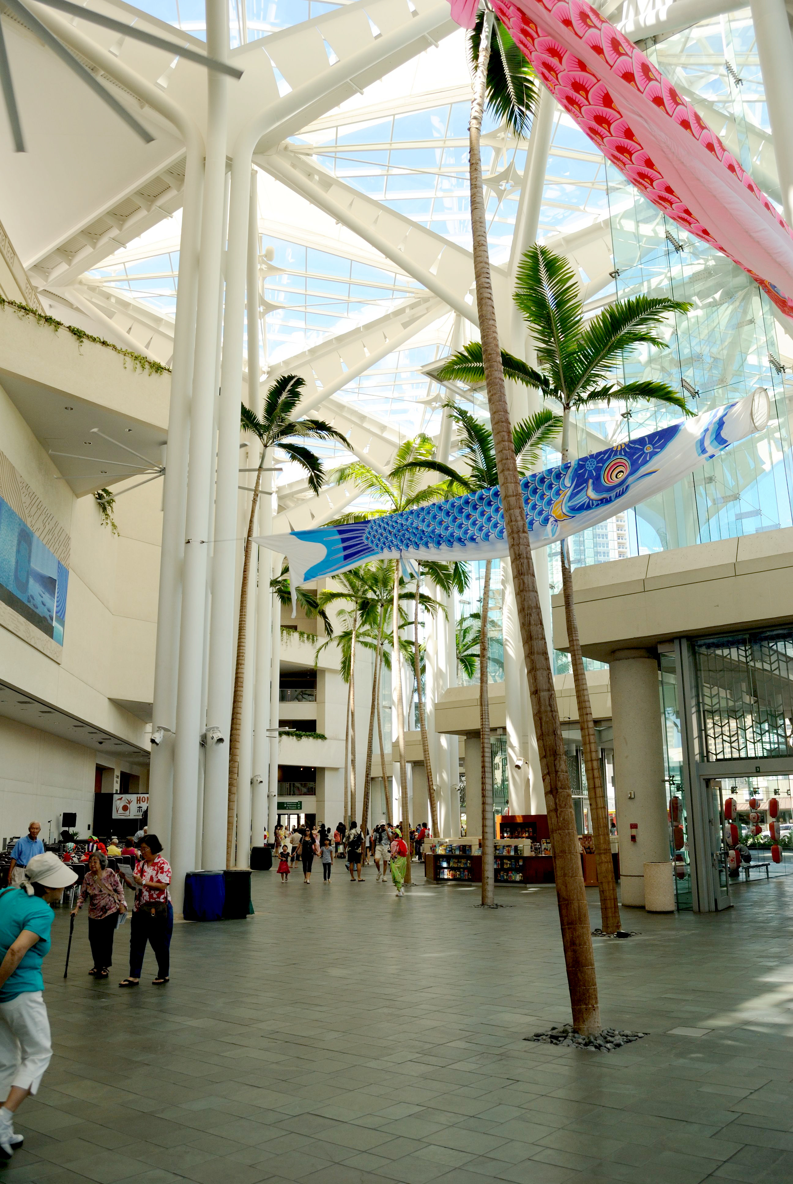 Inside the Hawaii Convention Center